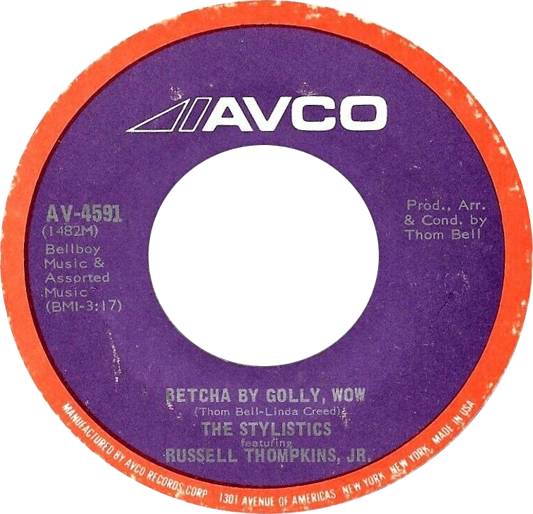 One of side-A labels of the US release of "Betcha by Golly, Wow" by the Stylistics